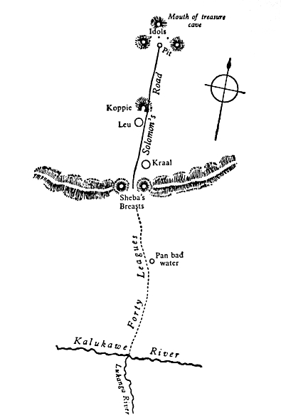 The Way to Kukuanaland, from King Solomon's Mines by H. Rider Haggard.